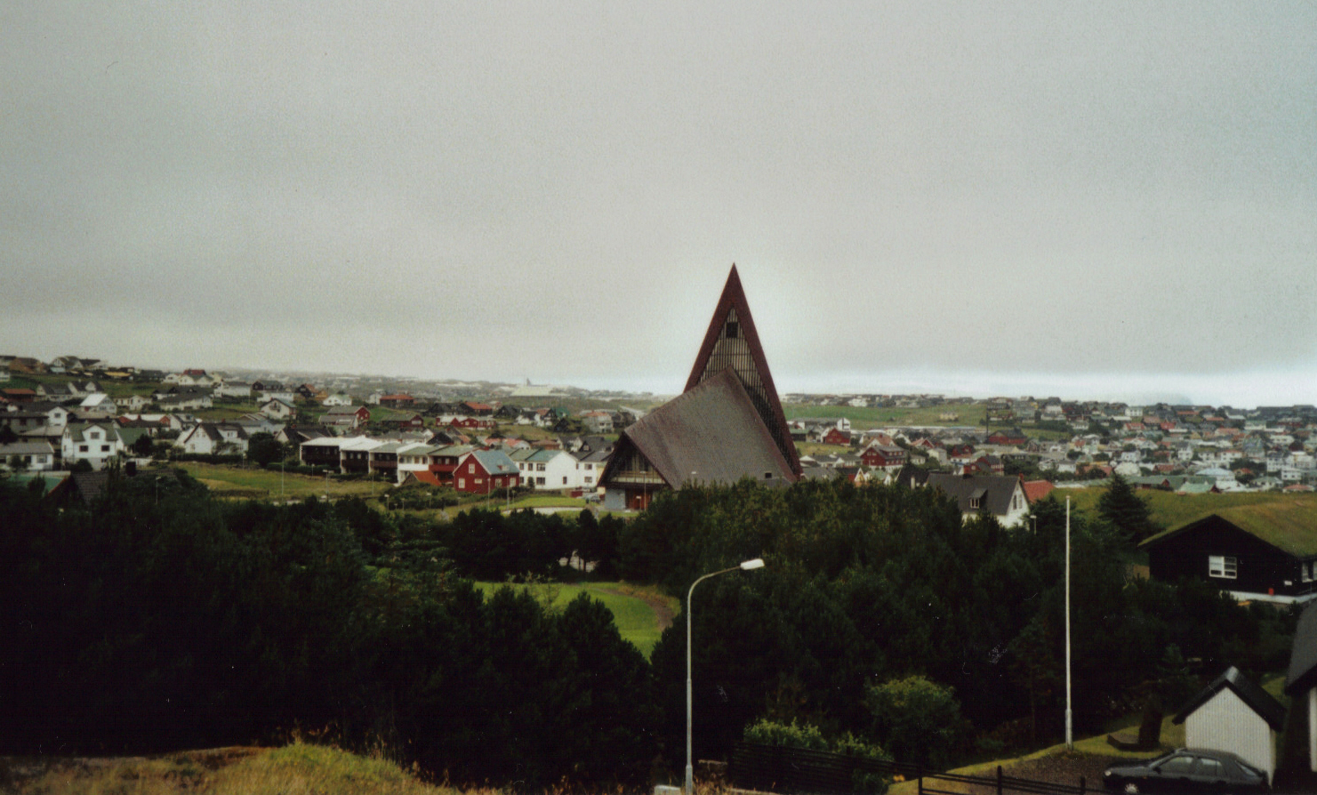 Prestlág Park, Tórshavn, Faroe Islands